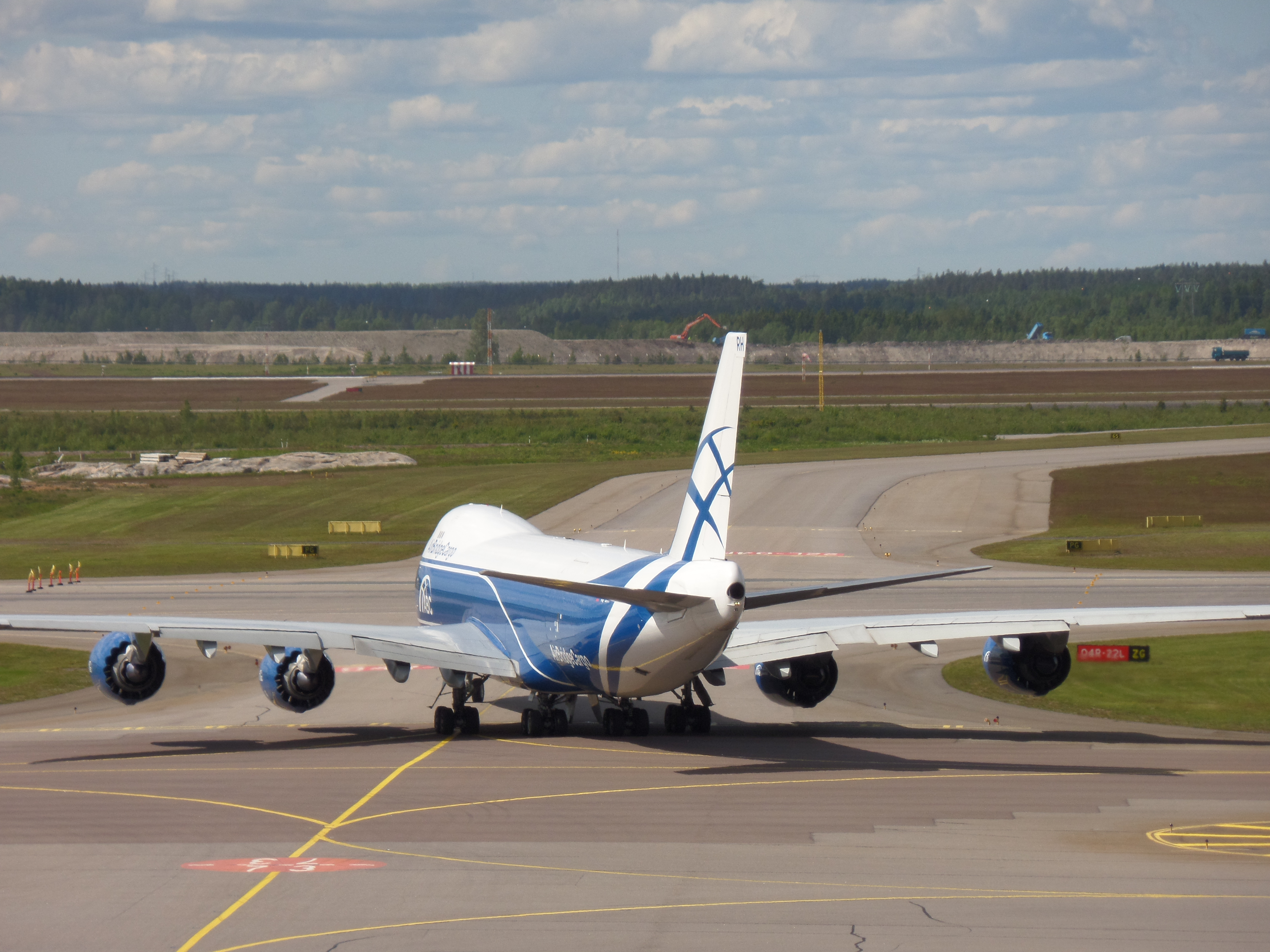 AirBridgeCargo Airlines Boeing 747-8HVF VQ-BRH at Helsinki-Vantaa Airport on 5 June, 2015.